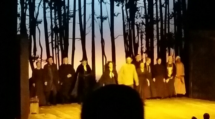 Actresses/actors of the play Les sorcières de Salem photographed in Laval, Quebec, Canada at Salle André-Mathieu.